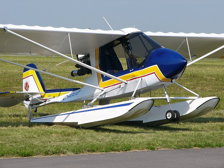 I took this photo of a Quad City Challenger II (C-IGUG) on ampib floats at the Arnprior Fly-in 11 July 2004